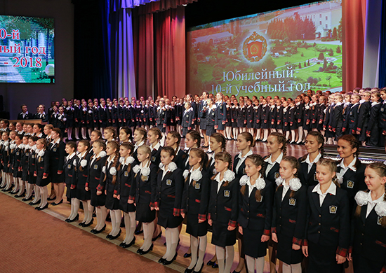 Today, the Russian Defence Minister General of the Army Sergei Shoigu attended the ceremony devoted to the Knowledge day and the beginning of the school year in the Russian Defence Ministry Boarding School for Girls.